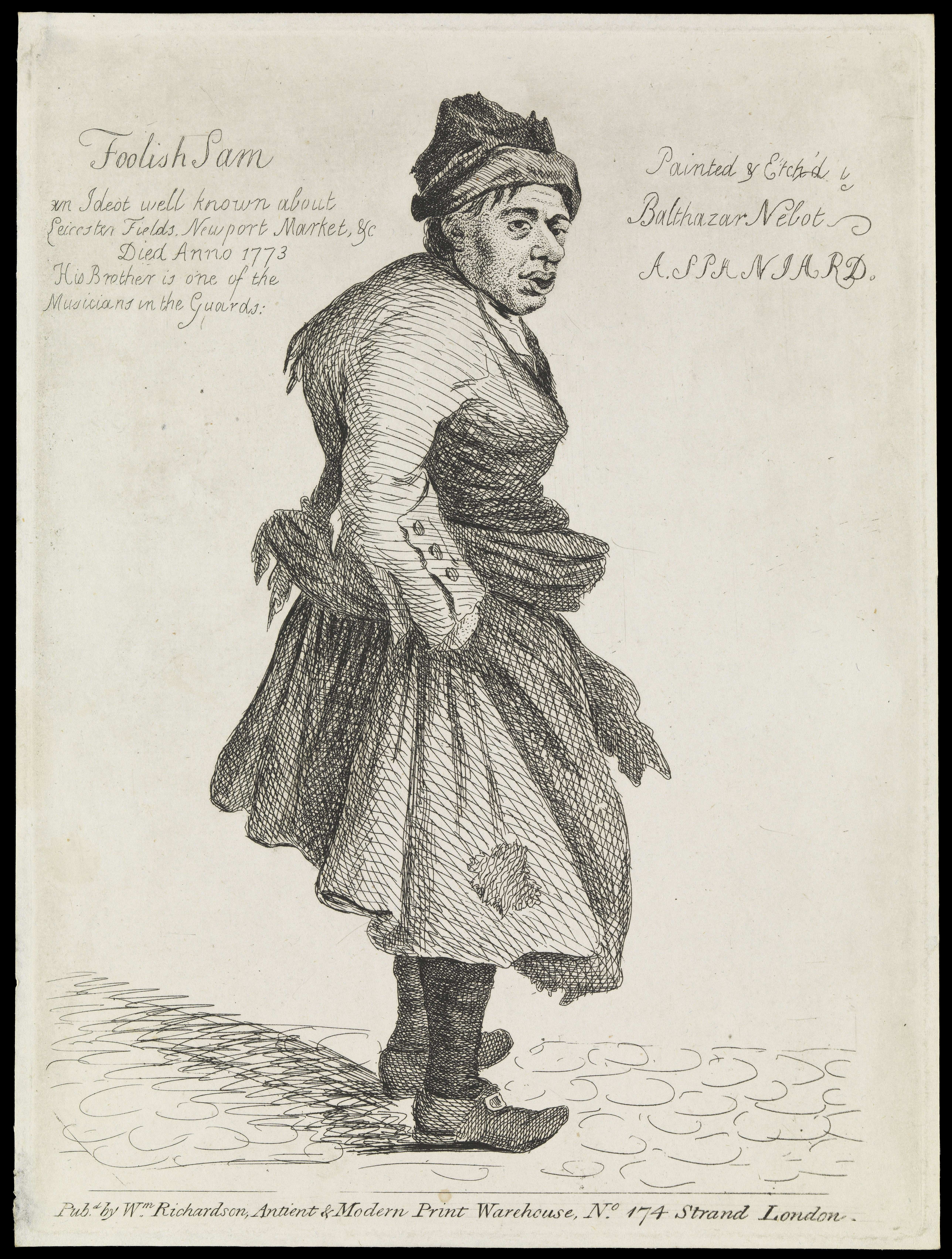 Lettering: Foolish Sam an ideot well known about Leicester Fields, Newport Market &c. Died anno 1773. His brother is one of the musicians in the Guards. Painted & etch'd by Balthazar Nebot a Spaniard. References: The new wonderful museum, and extraordinary magazine, London: R. S. Kirby, 1807, p. 2457 (a print copied from this etching and a brief account apparently also derived from Nebot's portrait) Iconographic Collections Keywords: Balthasar Nebot; Foolish Sam